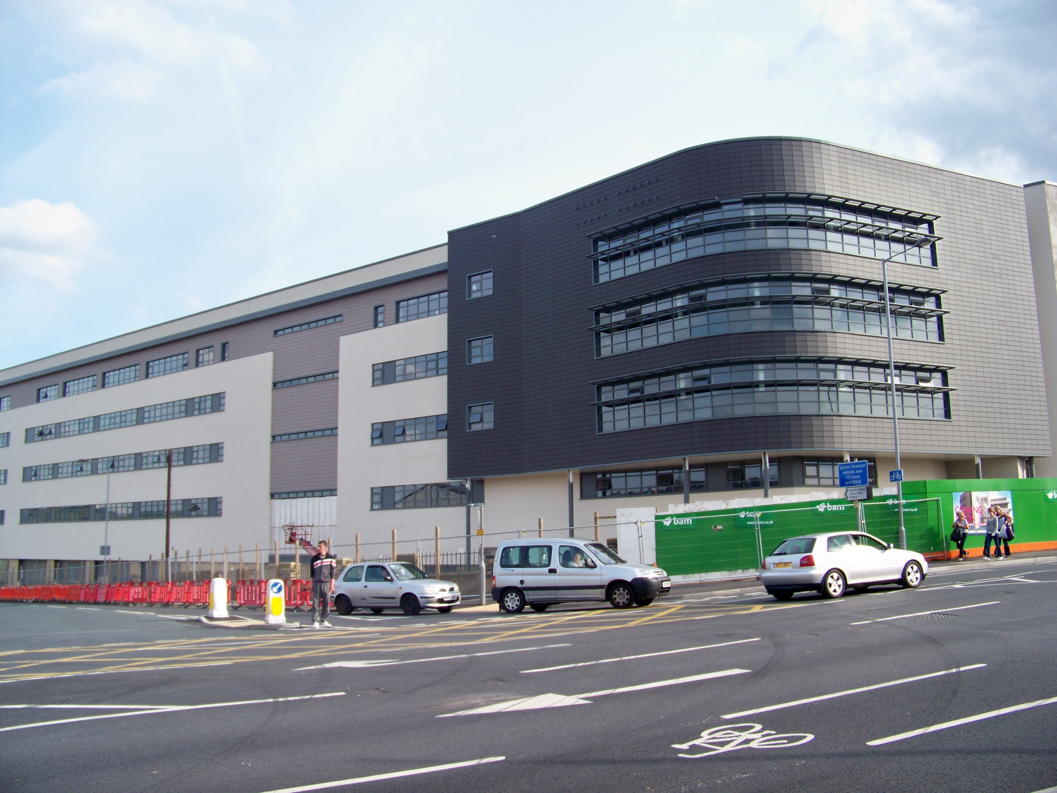 The new buildings at Park Lane College Keighley in Keighley, West Yorkshire. The buildings are yet to be occupied at the time of the image been taken. Image taken on the afternoon of Saturday the 22nd August 2009.